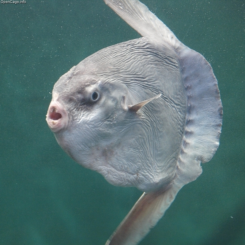 Ocean sunfish (Mola mola) (Linnaeus, 1758)